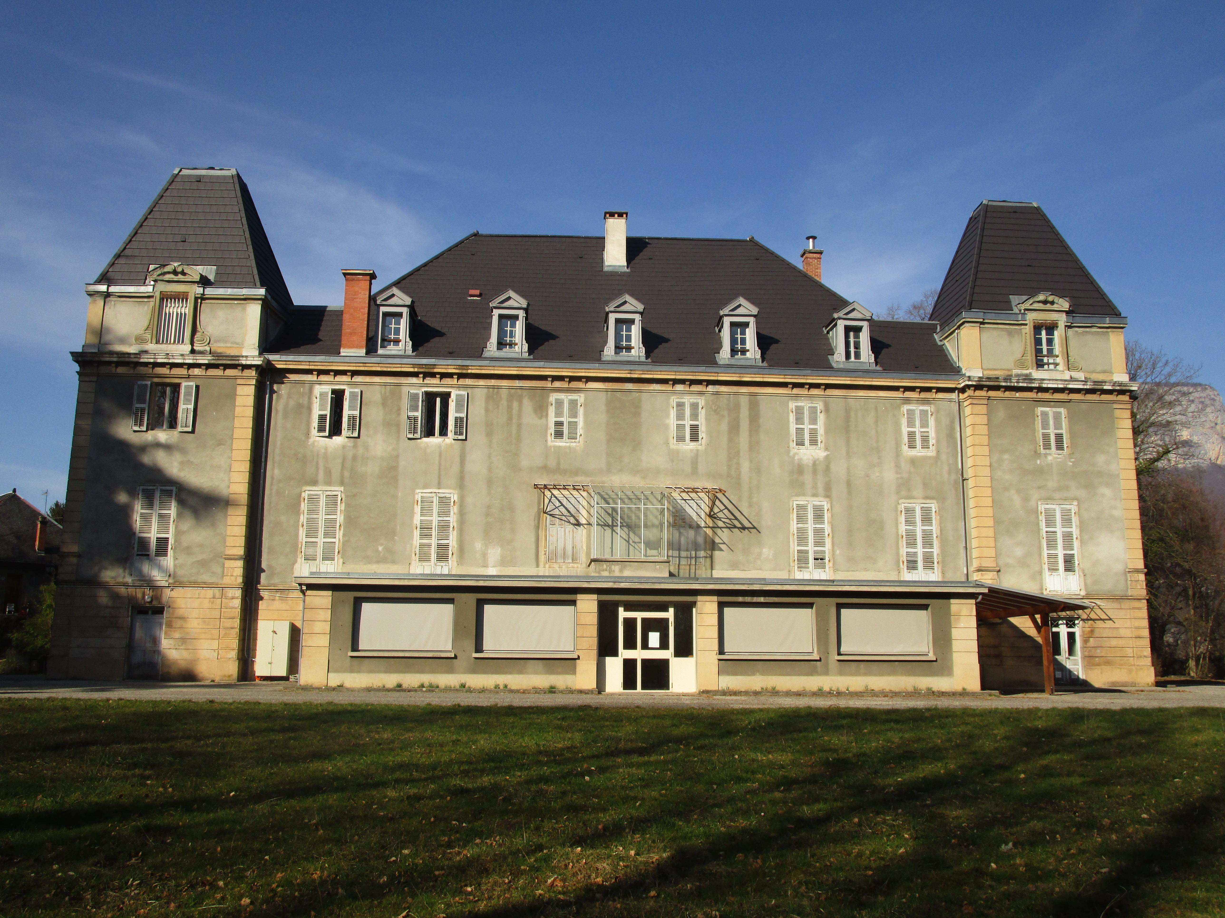 The château des Charmilles in La Ravoire on February 25, 2017.